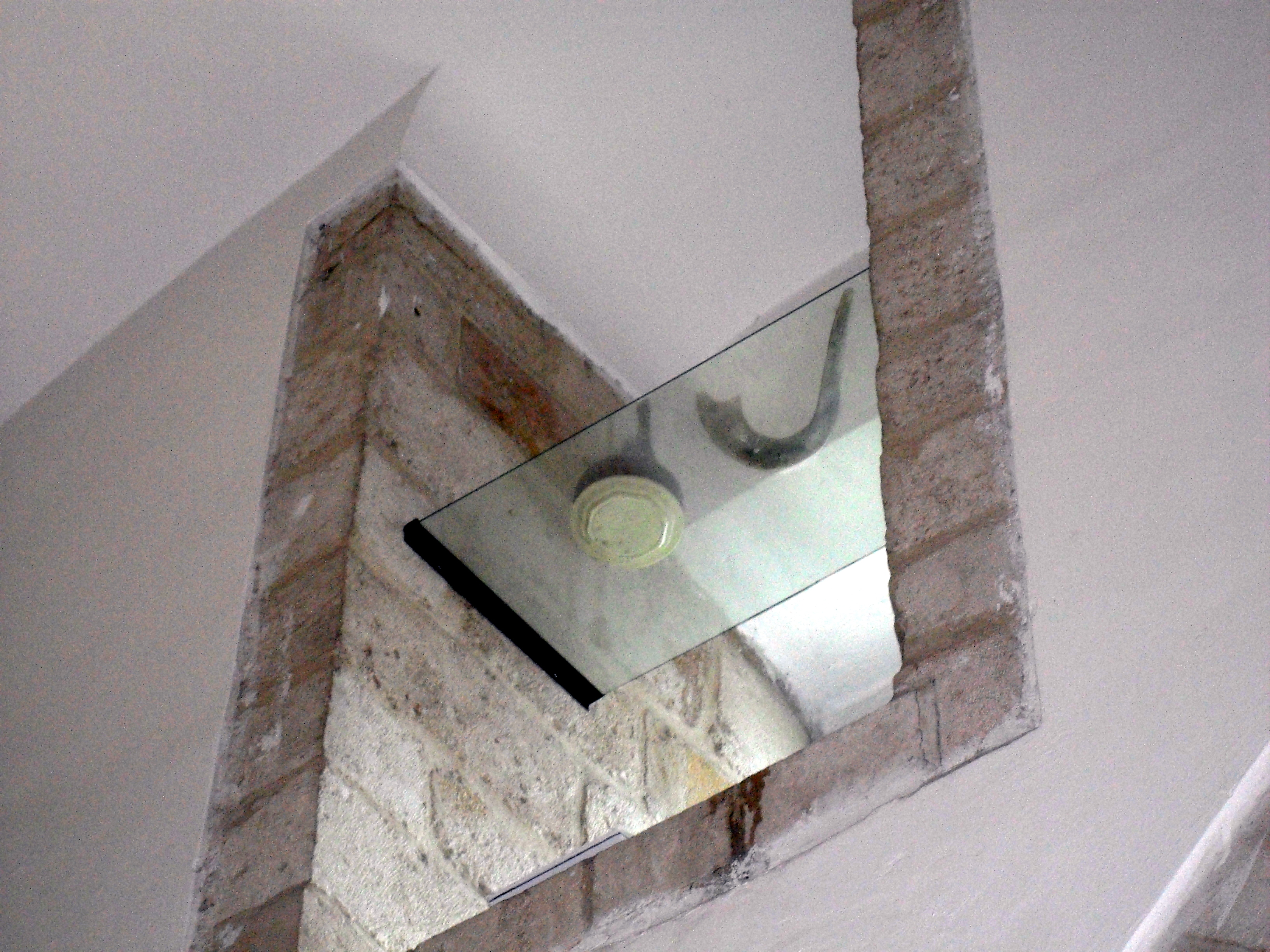 Old Jerusalem Yochanan ben Zakkai Synagogue - A flask of oil and a Shofar for the Anointing of the Messiah. It has been said that when the mashiach comes, the Sephardic community will be ready to anoint him and blow the shofar to announce his arrival. Legend has it there is a tunnel from under the Yohanan Ben Zakkai which leads directly to the Har Habayit, the Temple Mount.